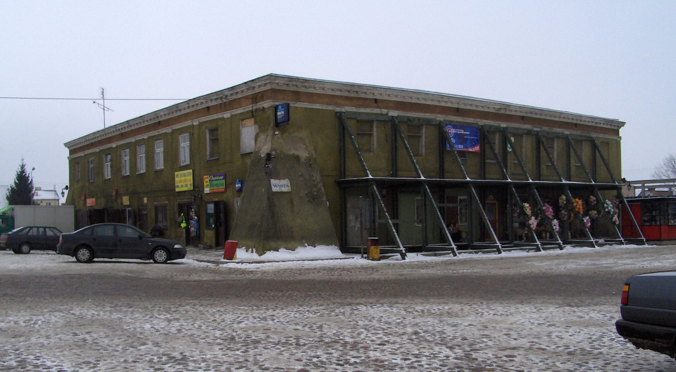 Market square in Żelechów.